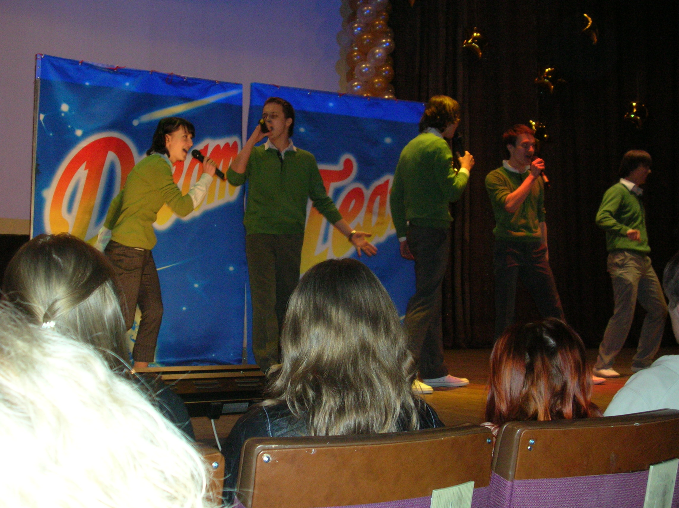 Performance of MSU student KVN team Moskva Limited